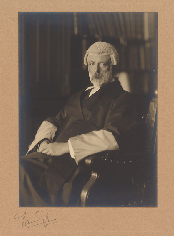 A portrait photograph of Sir Clement Meacher Bailhache (2 November 1856 – 8 September 1924), an English commercial lawyer and judge of the High Court of Justice of England and Wales.